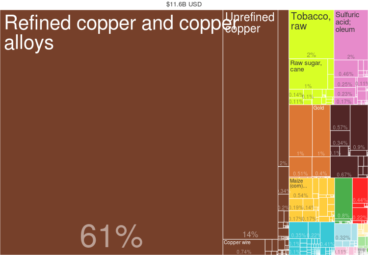 United States Export Treemap from MIT Harvard Atlas of Economic Complexity